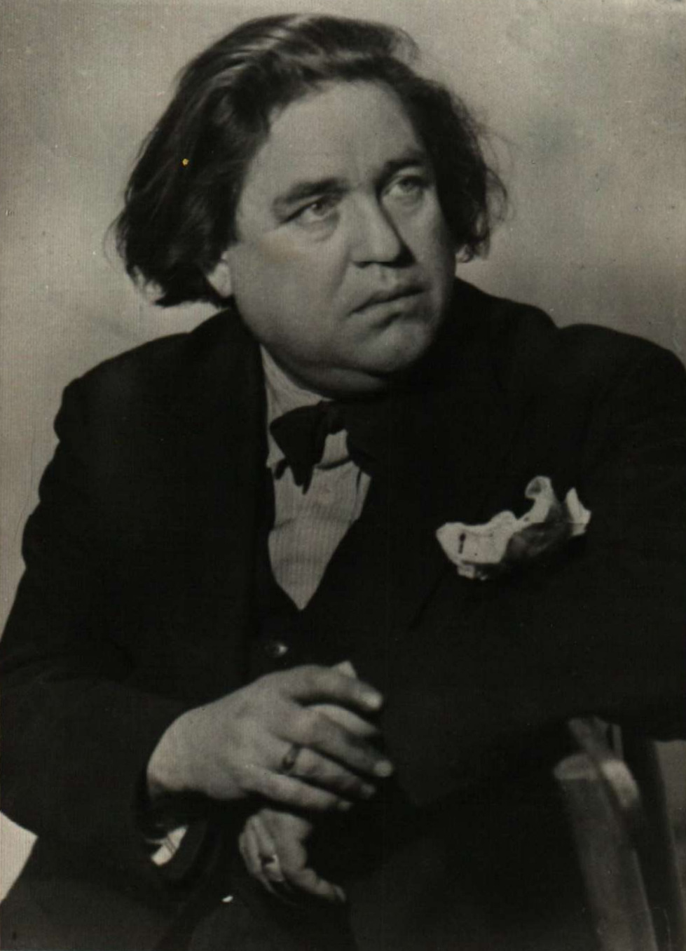 Bulgarian actor Stefan Kirov (1883-1941)